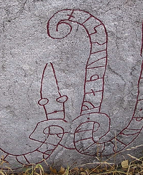 So194 Brosicke